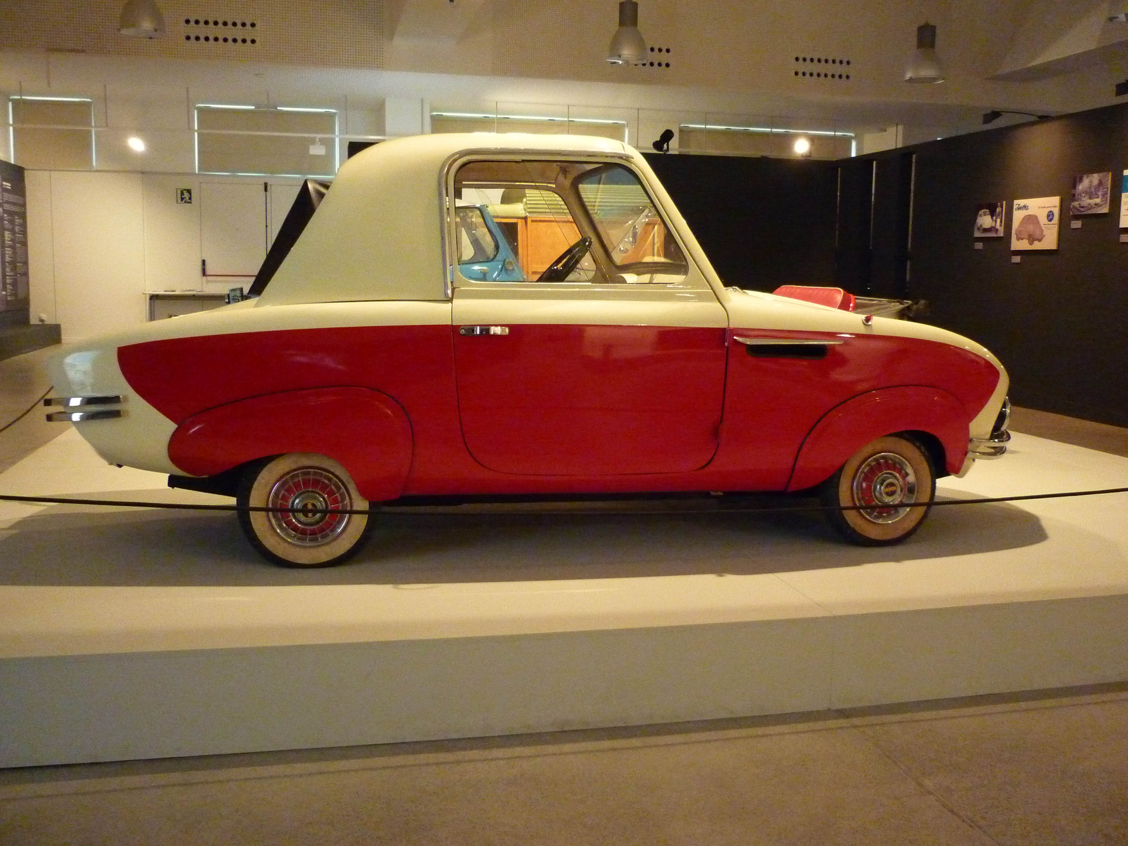 Biscúter Coupé 200-F Sport "Pegasín" (1958), microcar made in Catalonia